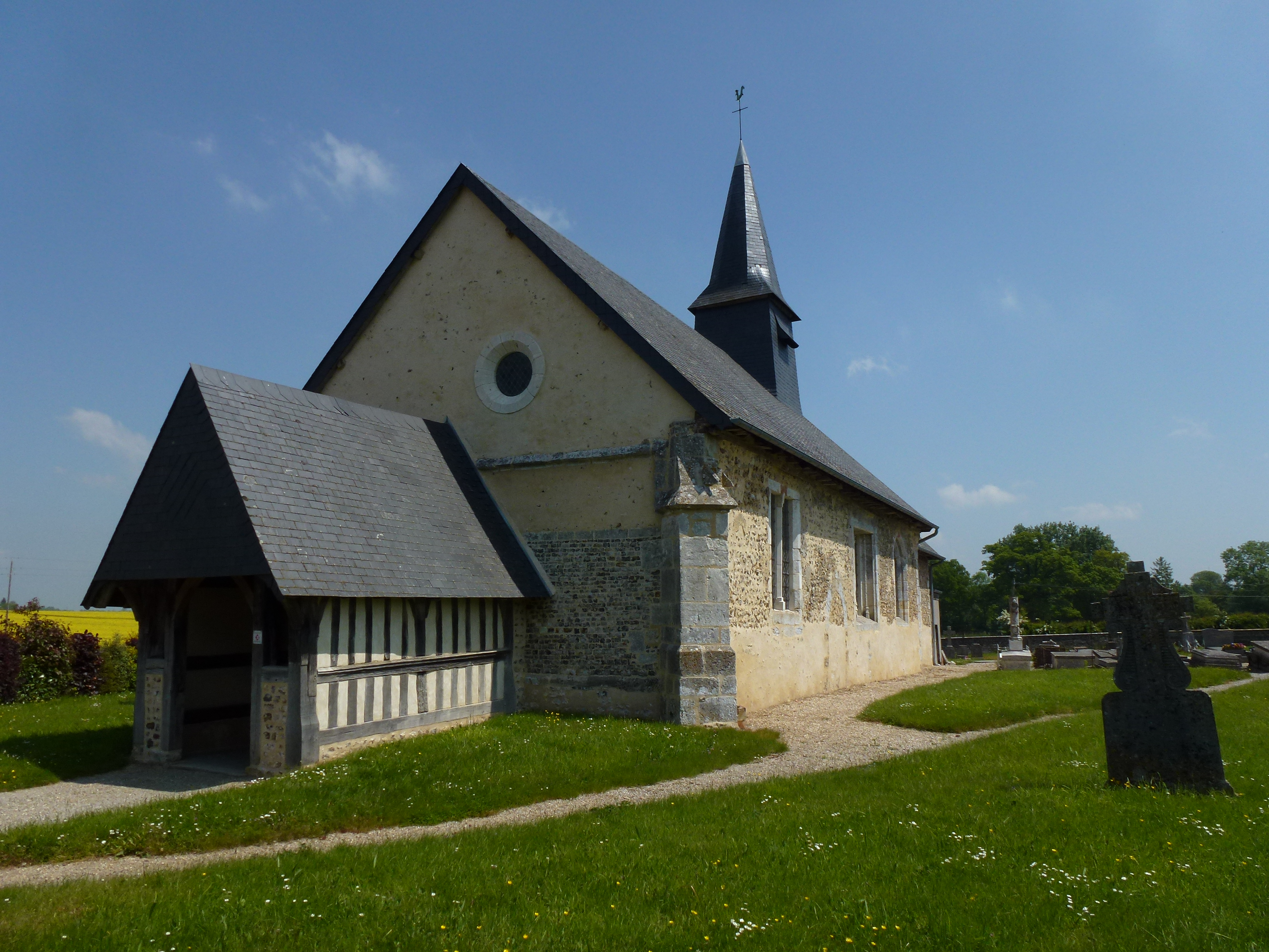 Noards (Eure, Fr) Église Saint-Germain-l'Auxerrois